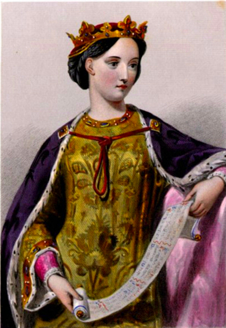 Margaret of France, Queen of England